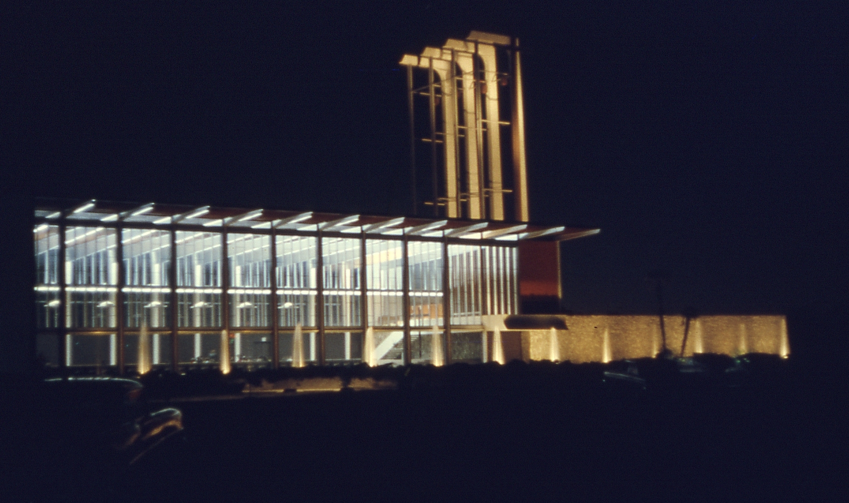 The Rev. Robert H. Schuller's Garden Grove Community drive-in Church at night, with the fountains operating — Garden Grove, Southern California. This Church was constructed 19 years before the Crystal Cathedral. Designed by architect Richard Neutra. A timed exposure, taken with a 35mm Exakta VX, using Ektachrome slide film.